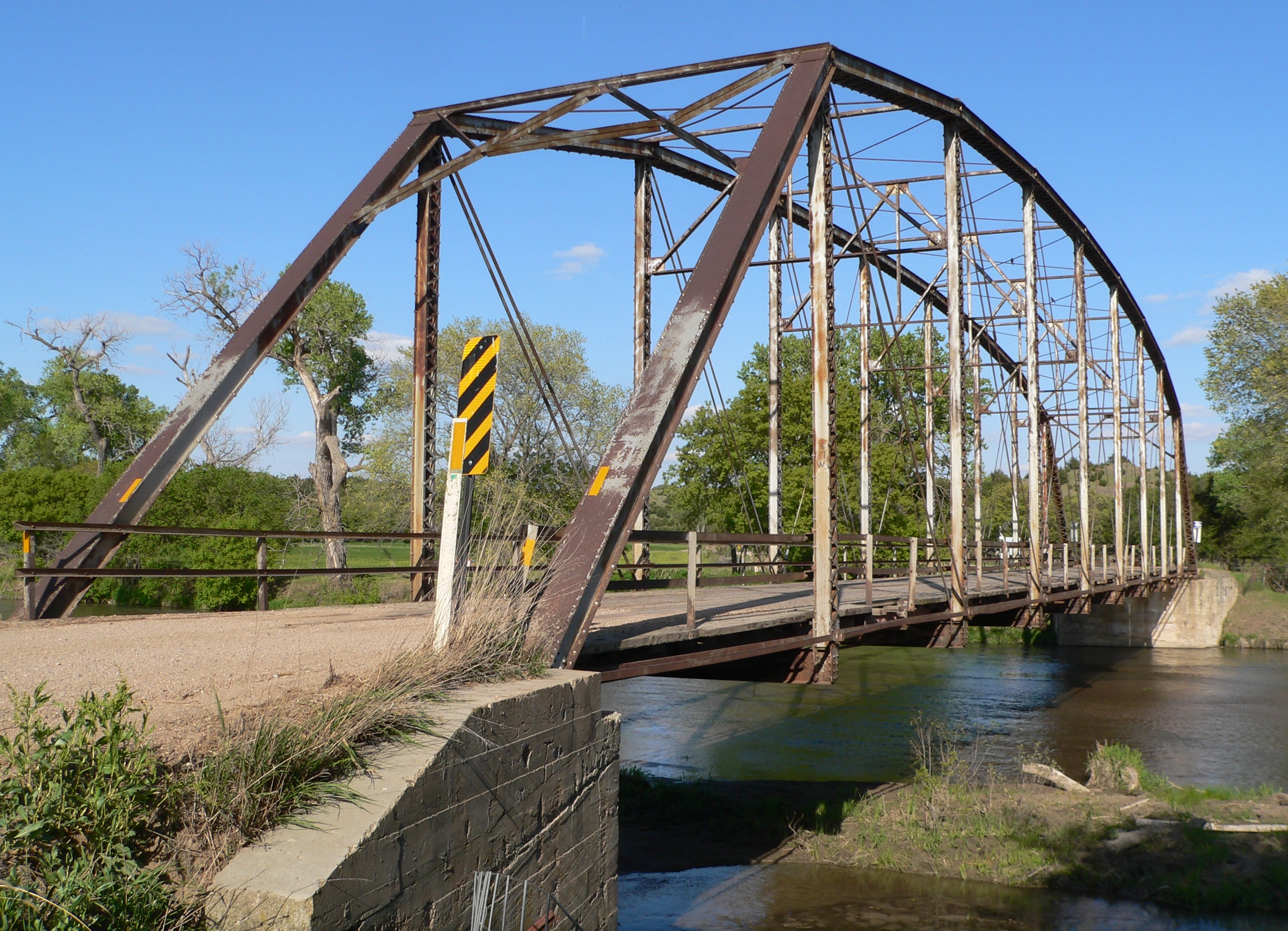 Gross State Aid Bridge, north of Verdigre in Knox County, Nebraska; seen from the southwest. The bridge carries county road 885 Rd across Verdigris Creek; in the picture, downstream is left. The pin-jointed Parker through truss bridge was built in 1918, and is listed in the National Register of Historic Places.